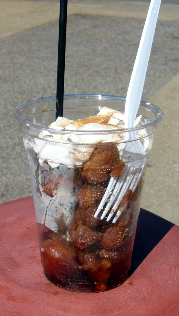 I tried this for the first time at the Texas state fair. It's coke-flavoured batter which is deep fried and coated in coke syrup, with cream on top. Delightfully bad for you, I only managed to eat half of it.